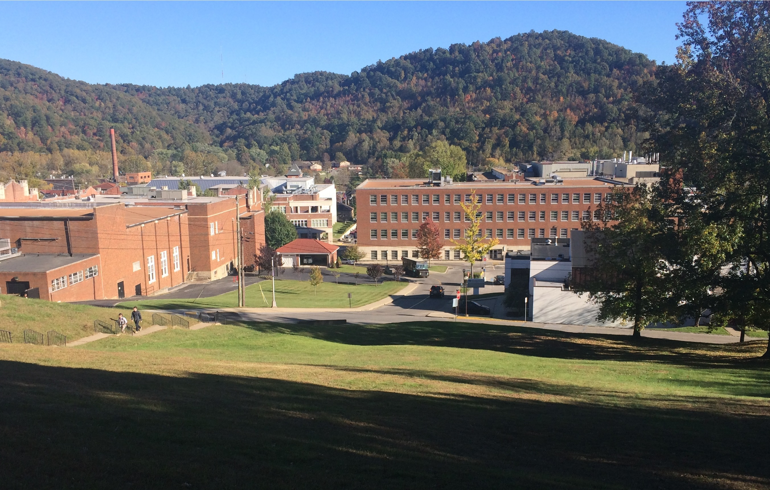 View of Morehead State University from the main parking lot.